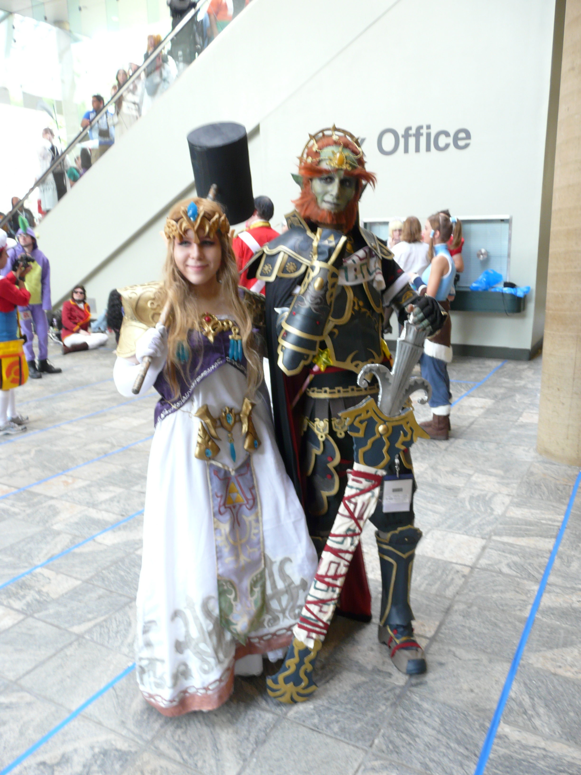 Cosplay of Princess Zelda and Ganondorf at Otakon 2012.